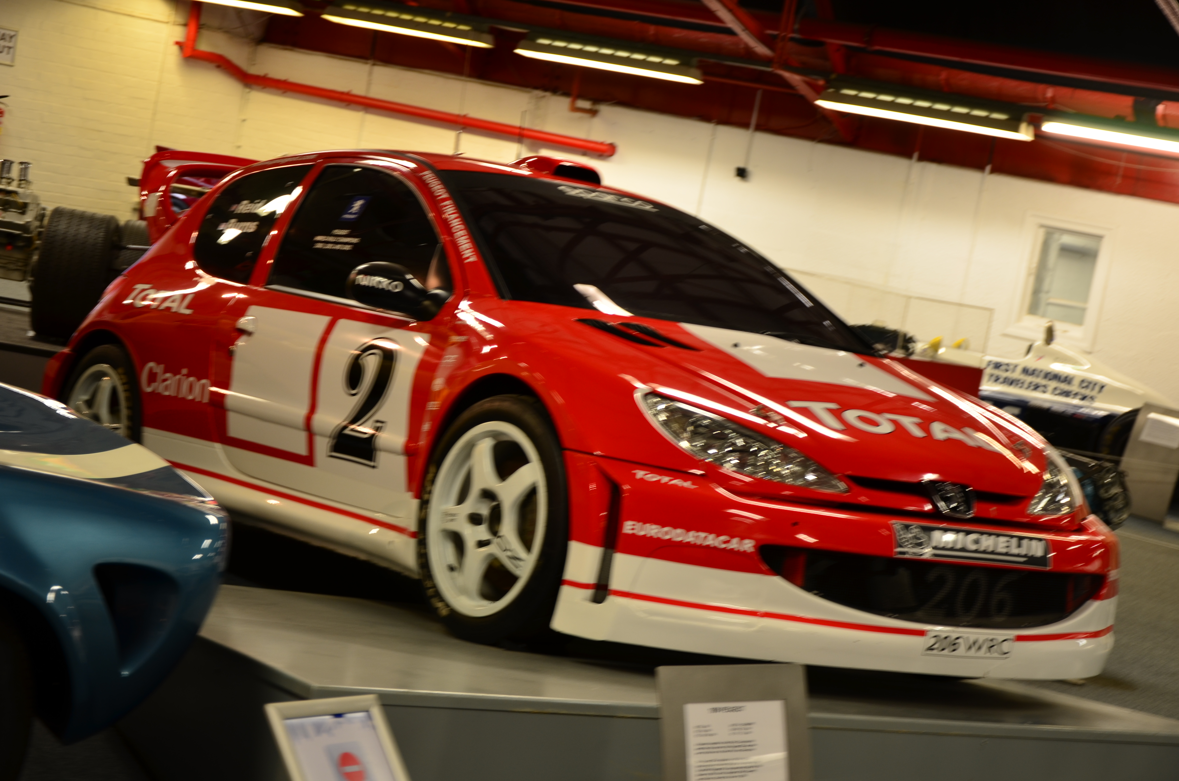 Peugeot rally car